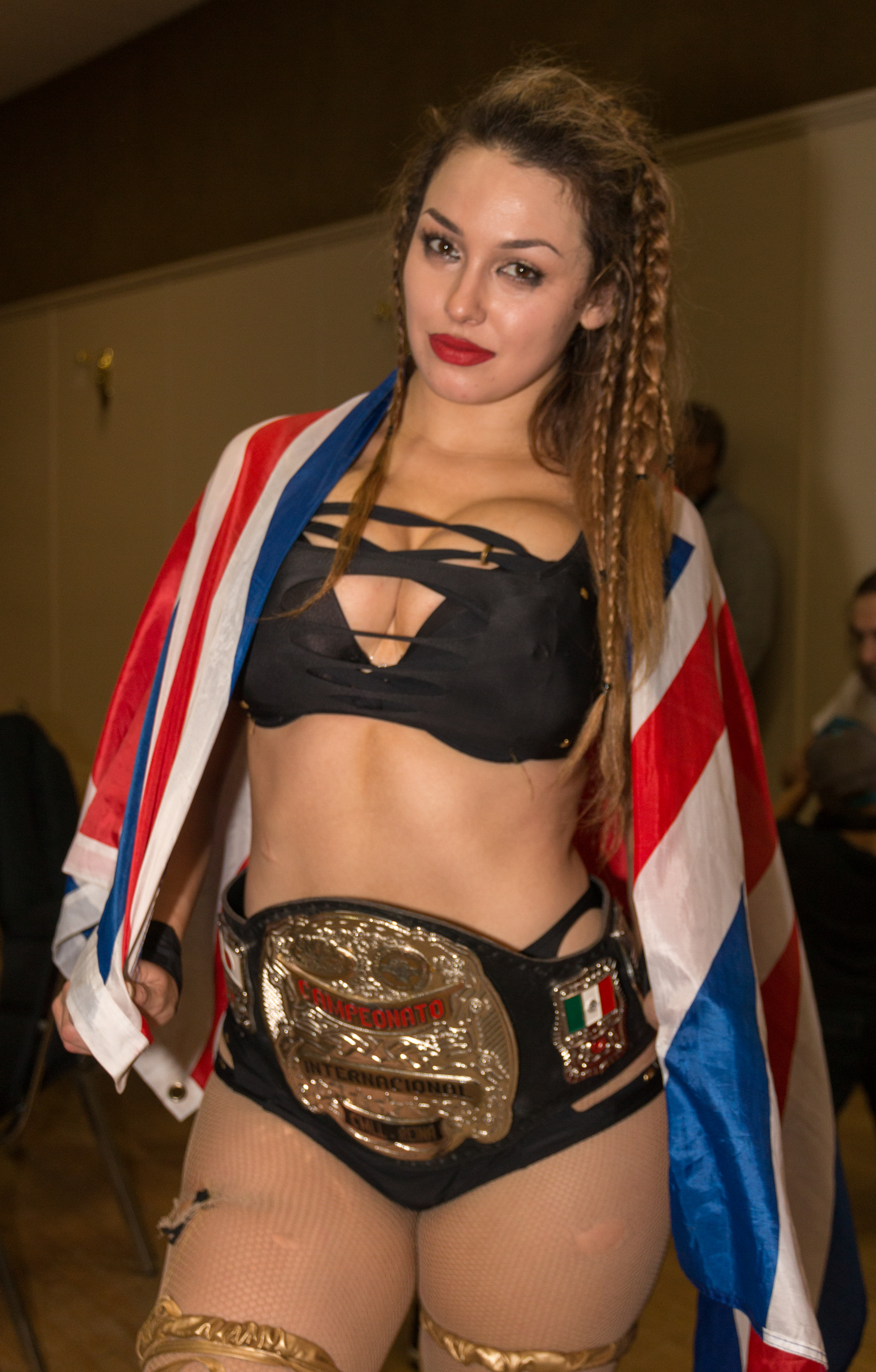 Independent wrestler Heidi Katrina posing while wearing the CMLL-Reina International Championship during the intermission at a Pro Wrestling Eclipse show in Oshawa, ON.